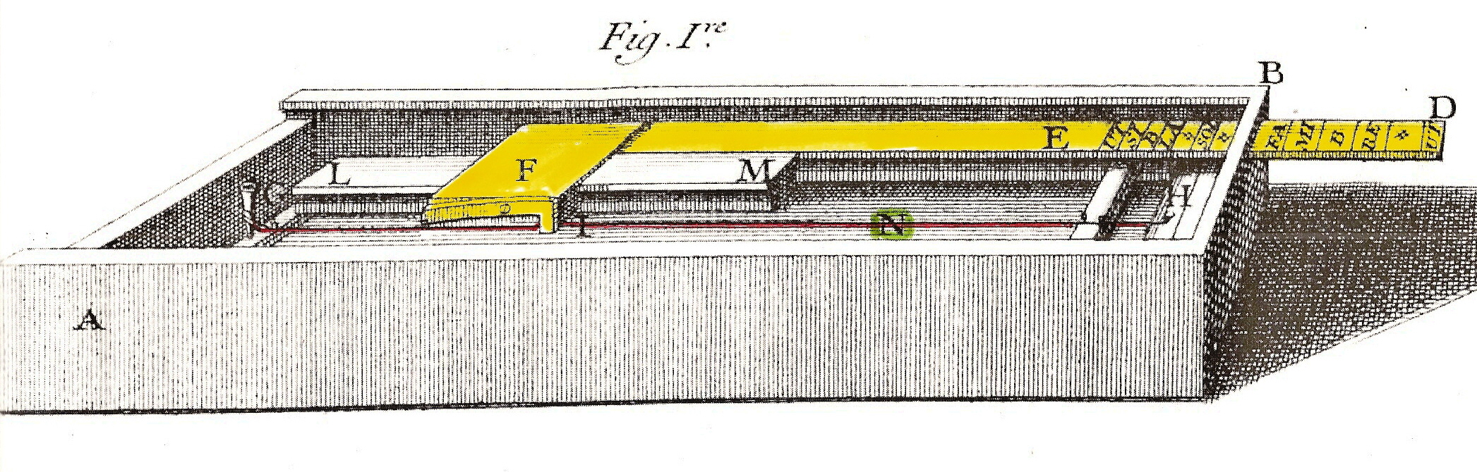 Loulié's small chronomètre, with colors added for explaining the engraving